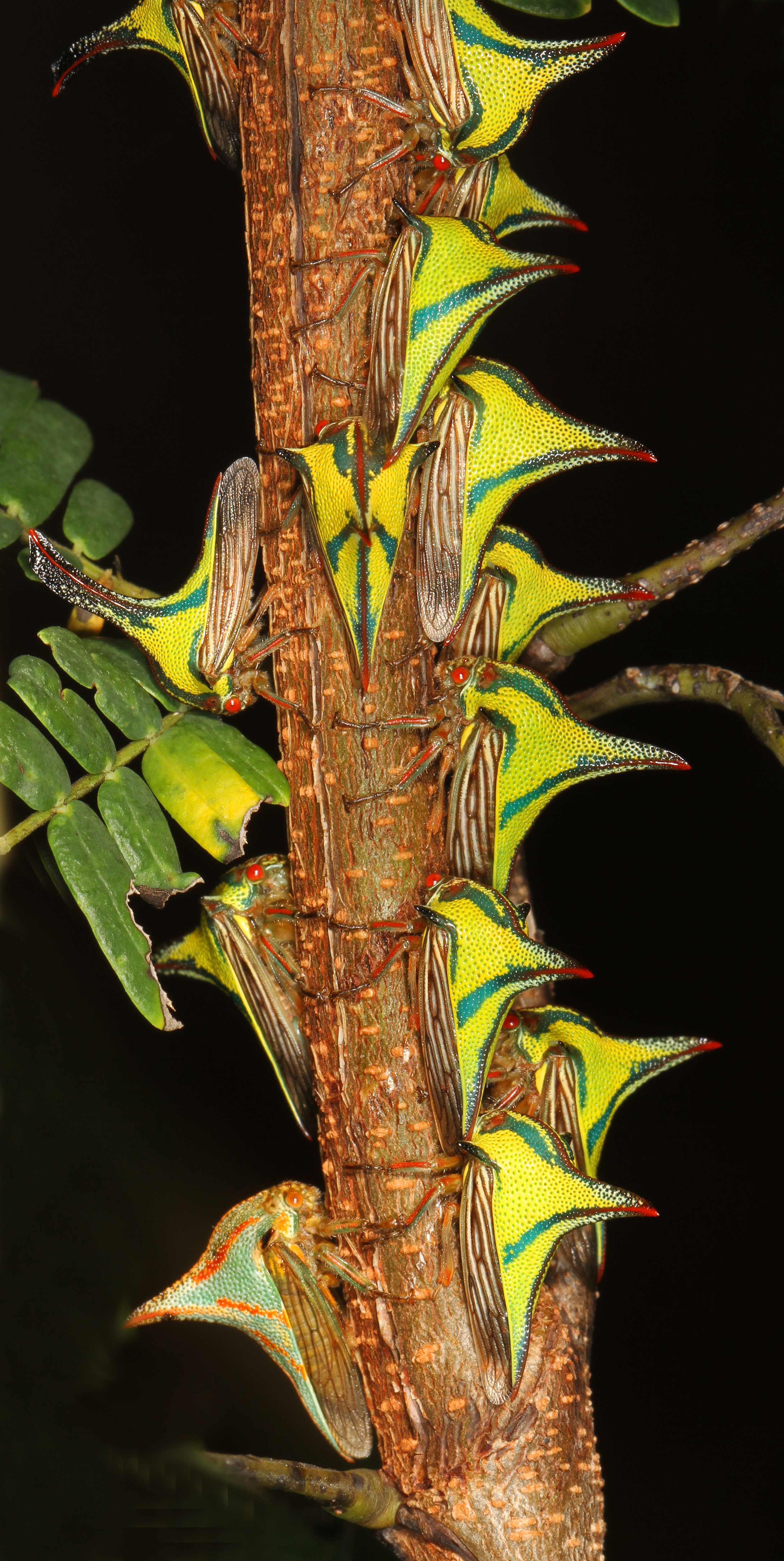 Thorn Treehopper - Umbonia crassicornis, Everglades National Park, Homestead, Florida. These are colloquially known as Thornbugs. They are small, and despite their magnificent coloration, I almost missed seeing them as they do look like thorns. The only thing that gave them away was the unusual distribution. I'm glad I took a closer look!